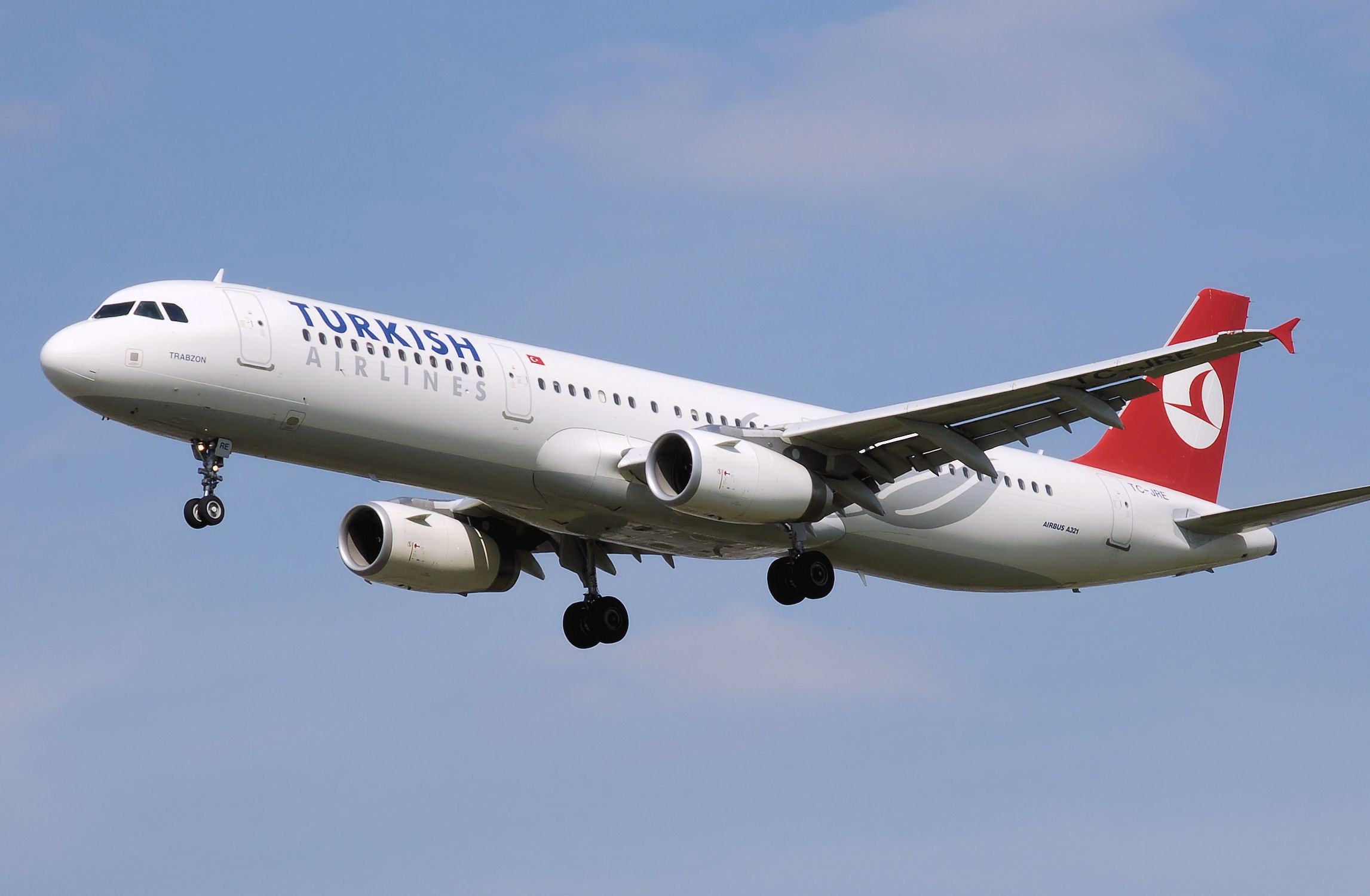 Turkish Airlines A321-200 (TC-JRE) landing at London Heathrow Airport.